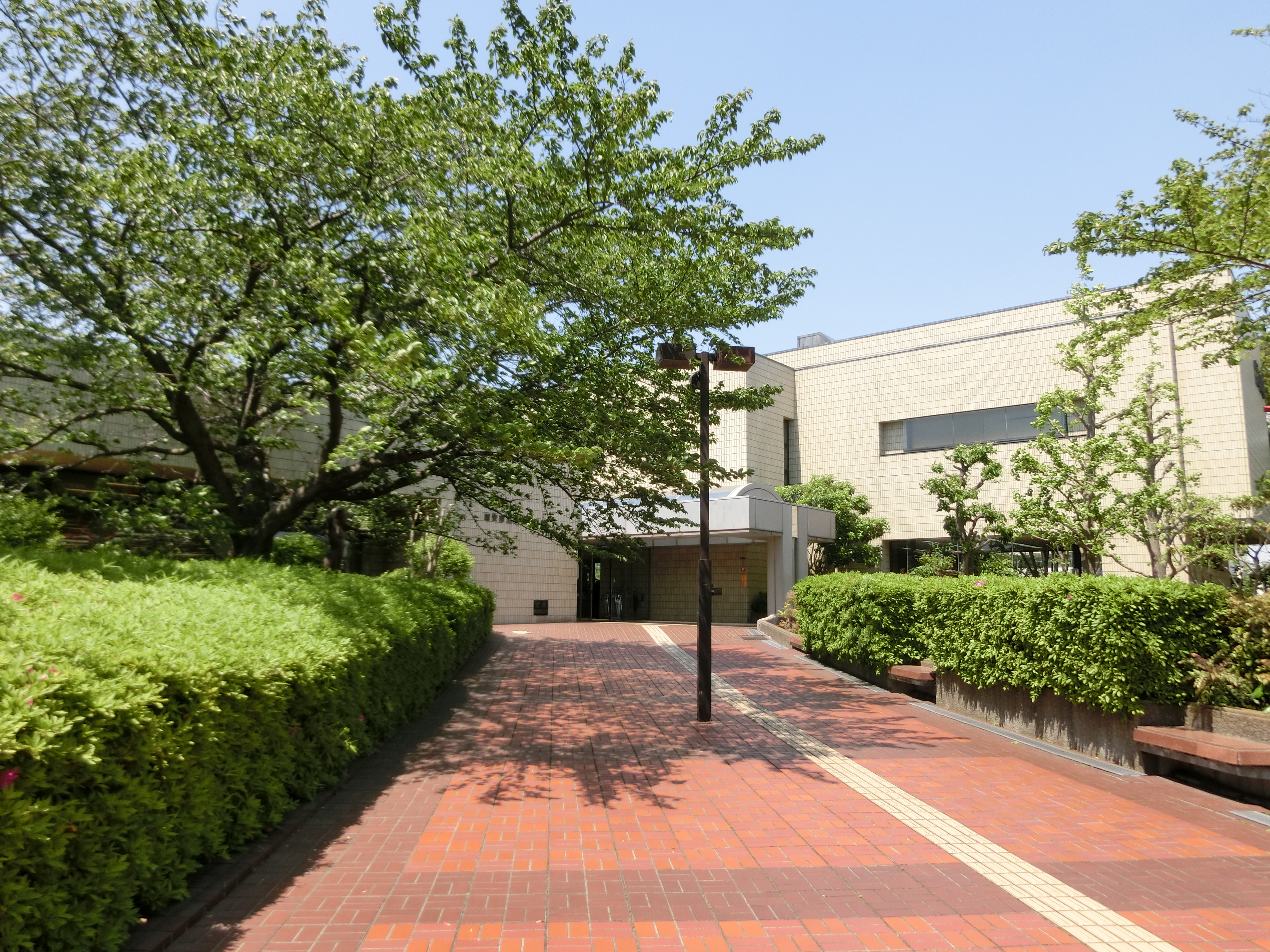 Urayasu City Central Library